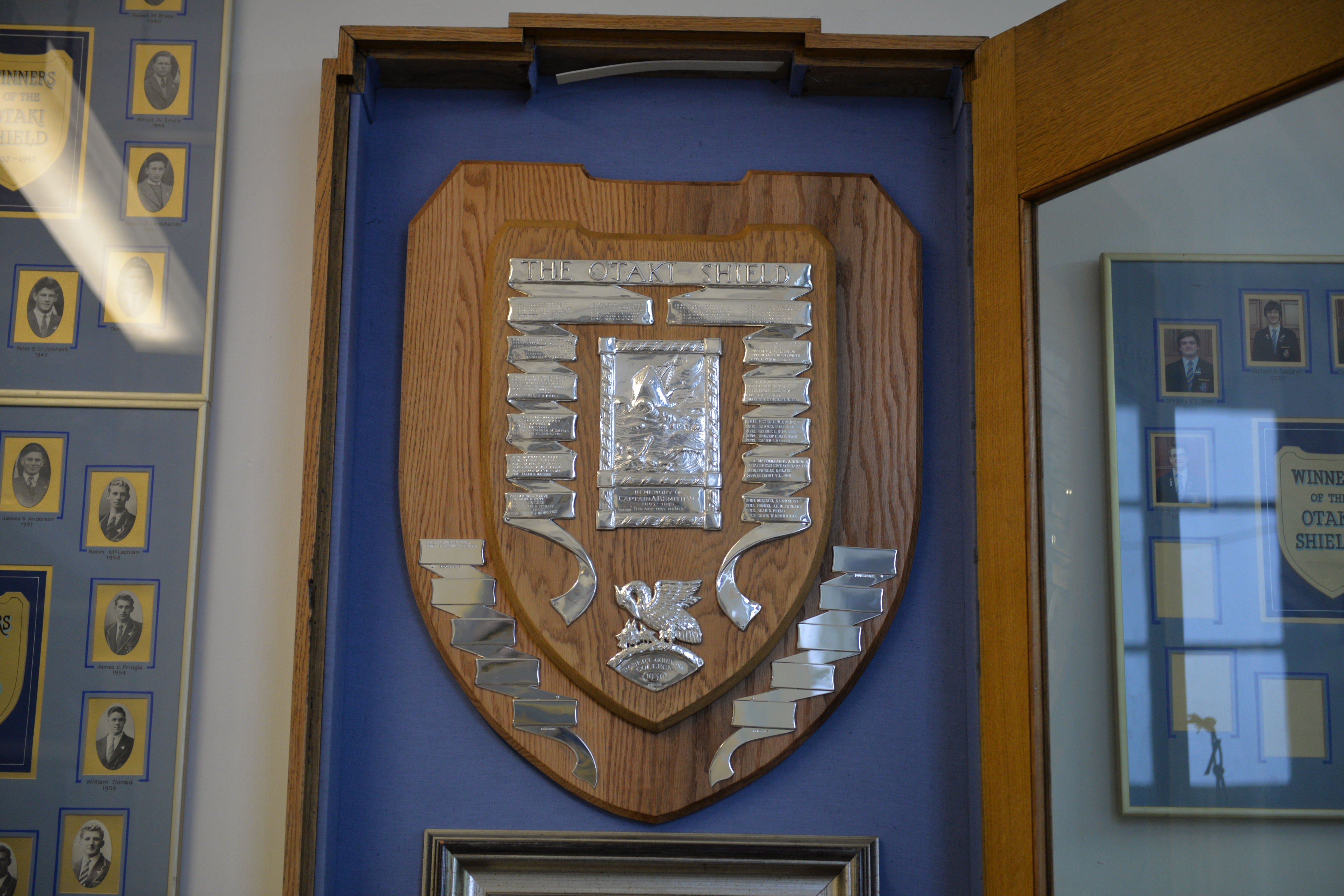 Robert Murray photo